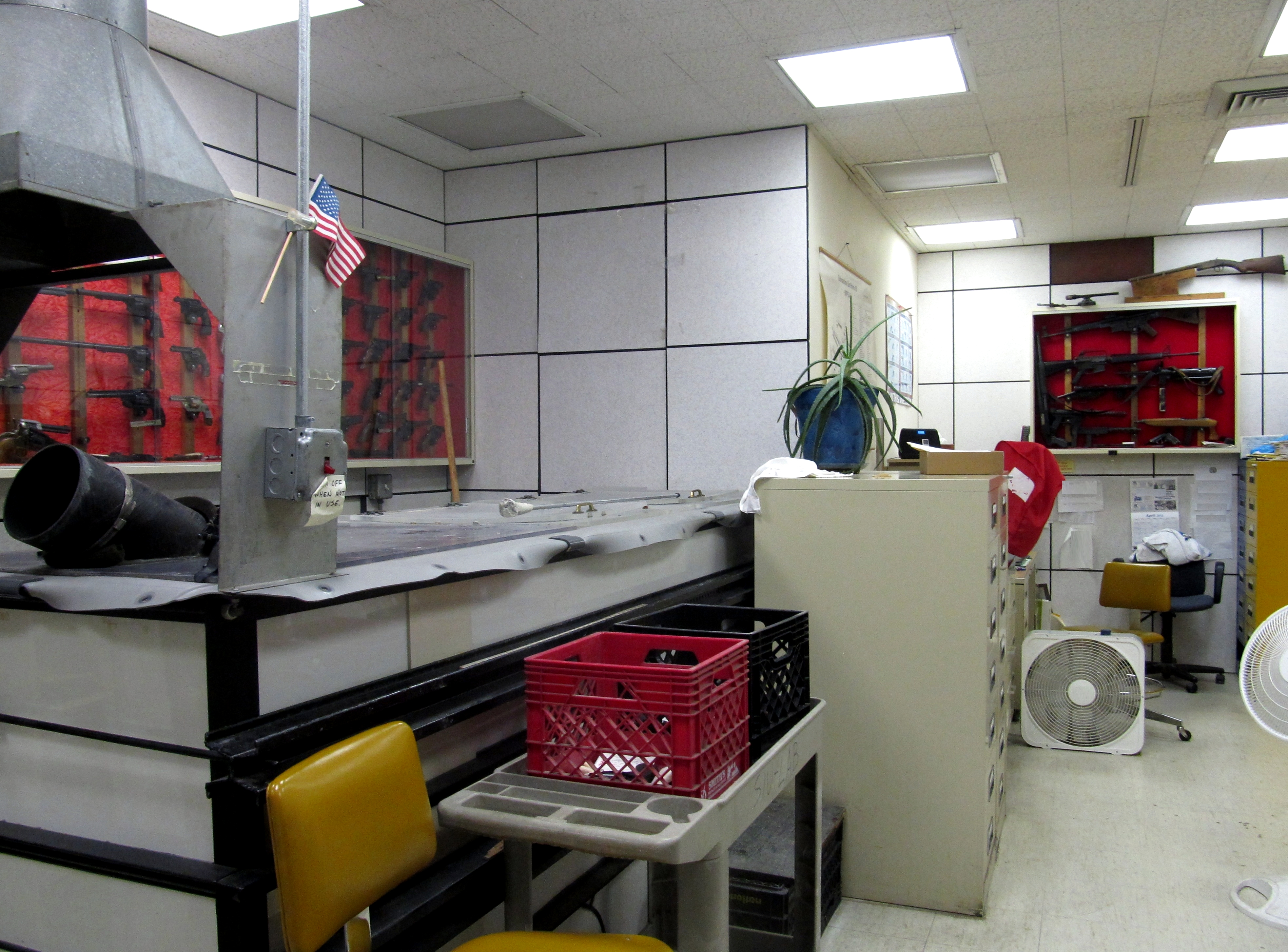 The gun testing and identification room at a city police department.